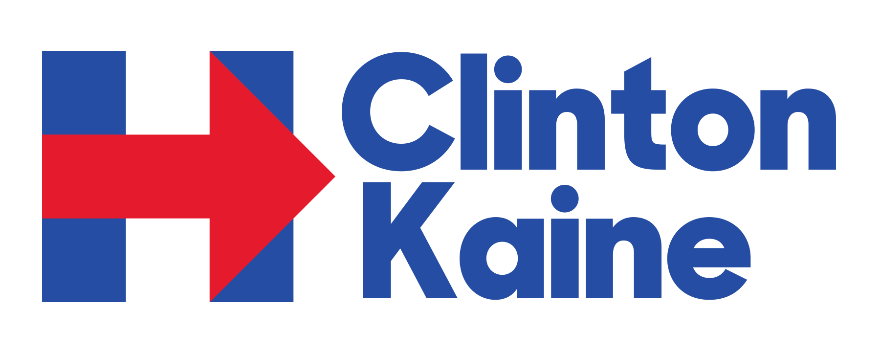 Logo/sticker for Hillary Clinton and Tim Kaine's presidential campaign in 2016